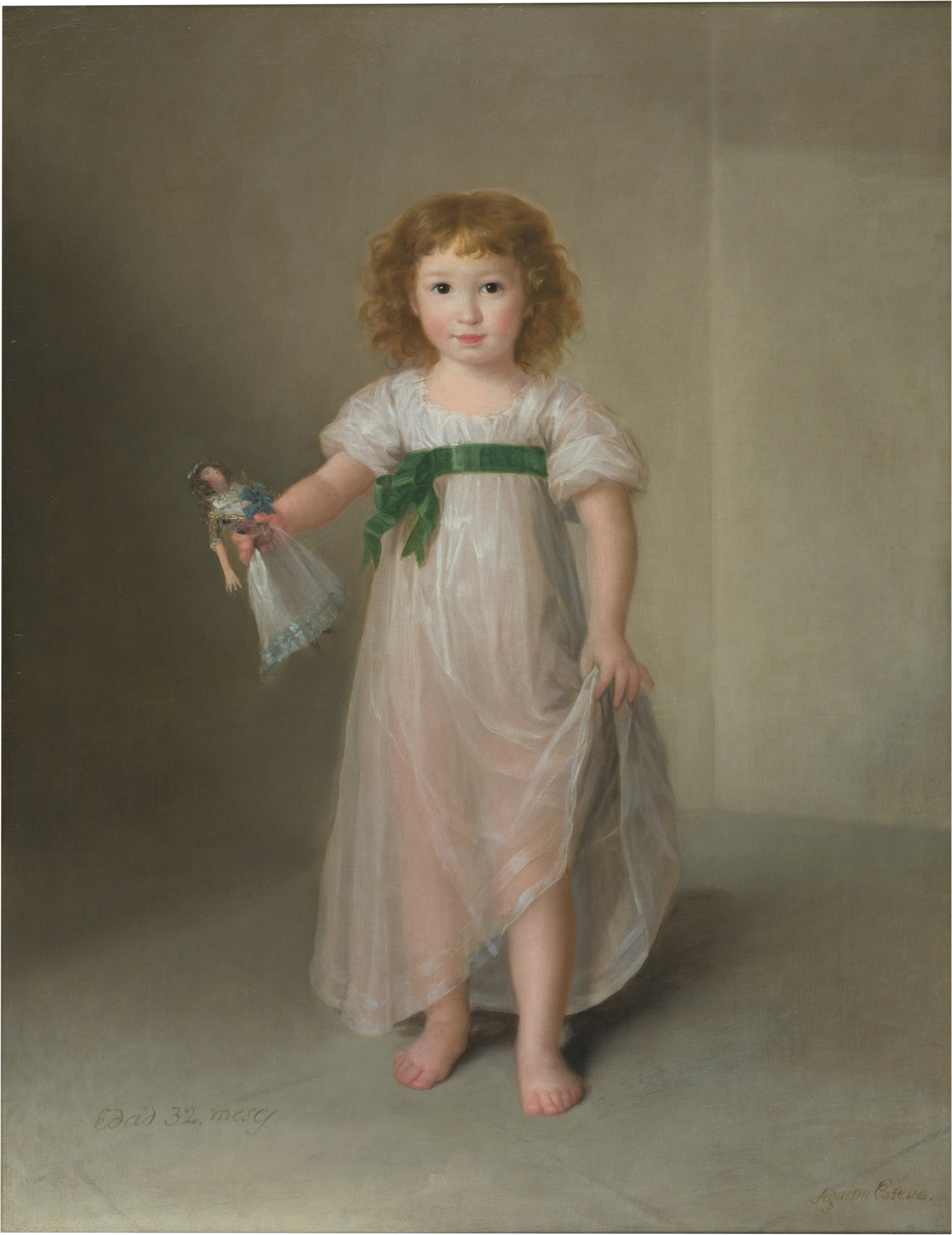 Portrait of Manuela Téllez-Girón, future Duchess of Abrantes by Agustin Esteve y Marqués, 1797, oil on canvas, 110.5 x 86 cm., Museo Nacional del Prado